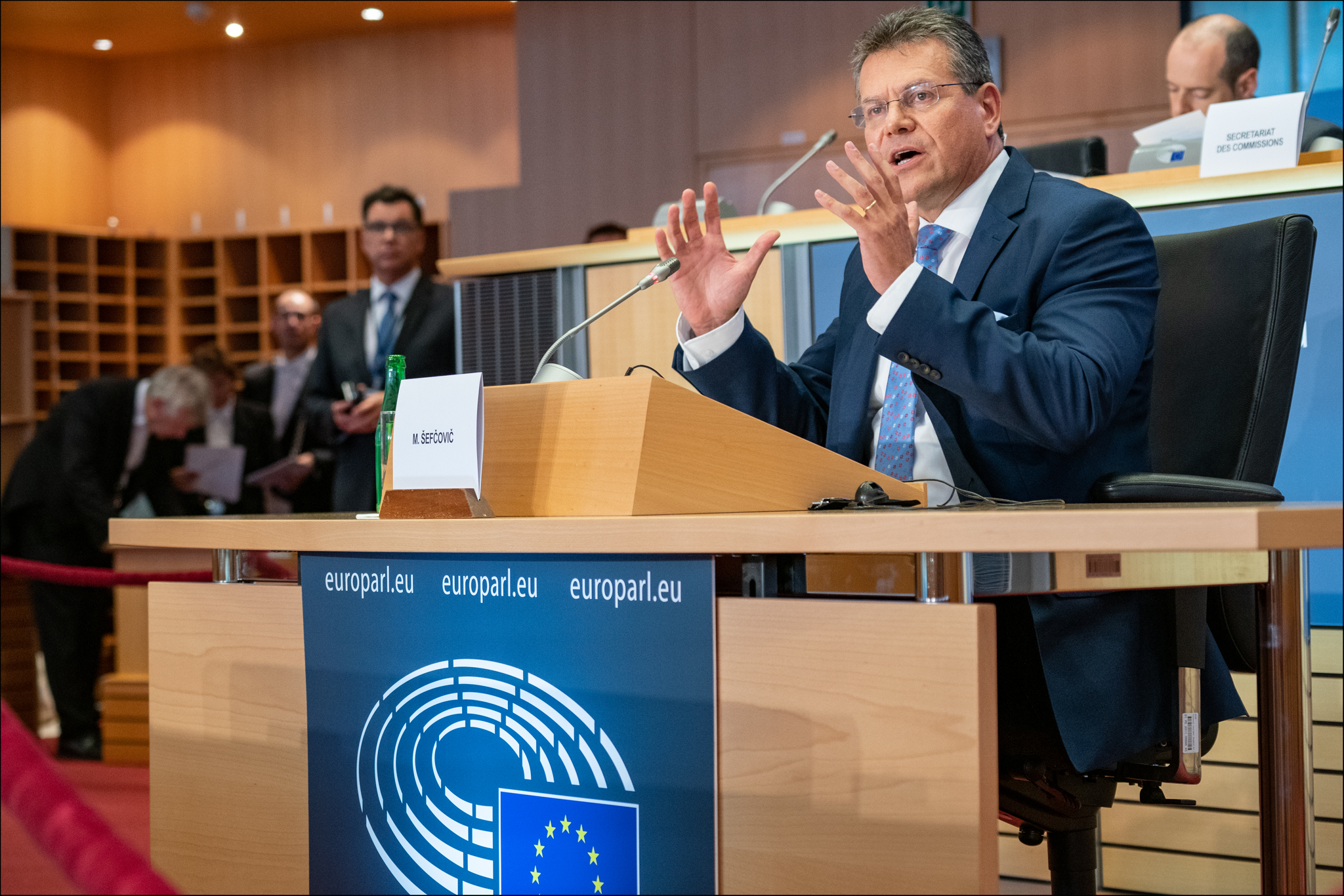 Before the European Parliament can vote the new European Commission led by Ursula von der Leyen into office, parliamentary committees will assess the suitability of commissioners-designate. On 23-26 May, more than 200,000,000 people in 28 EU countries went to the polls to elect members of the European Parliament, giving them a strong democratic mandate, including voting into office the new European Commission and examining the competencies and abilities of its commissioners-designate. Elected members of the European Parliament will also listen to their ideas and will assess their willingness to take concrete actions on the issues that Europeans care about. Each candidate commissioner is invited for a live-streamed, three-hour hearing in front of the committee or committees responsible for their proposed portfolio. The hearings will take place between Monday 30 September and Tuesday 8 October. This photo is free to use under Creative Commons license CC-BY-4.0 and must be credited: "CC-BY-4.0: © European Union 2019 – Source: EP". No model release form if applicable. For bigger HR files please contact: webcom-flickr(AT)